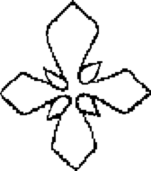 The cross from the runestone on Frösön, Jämtland